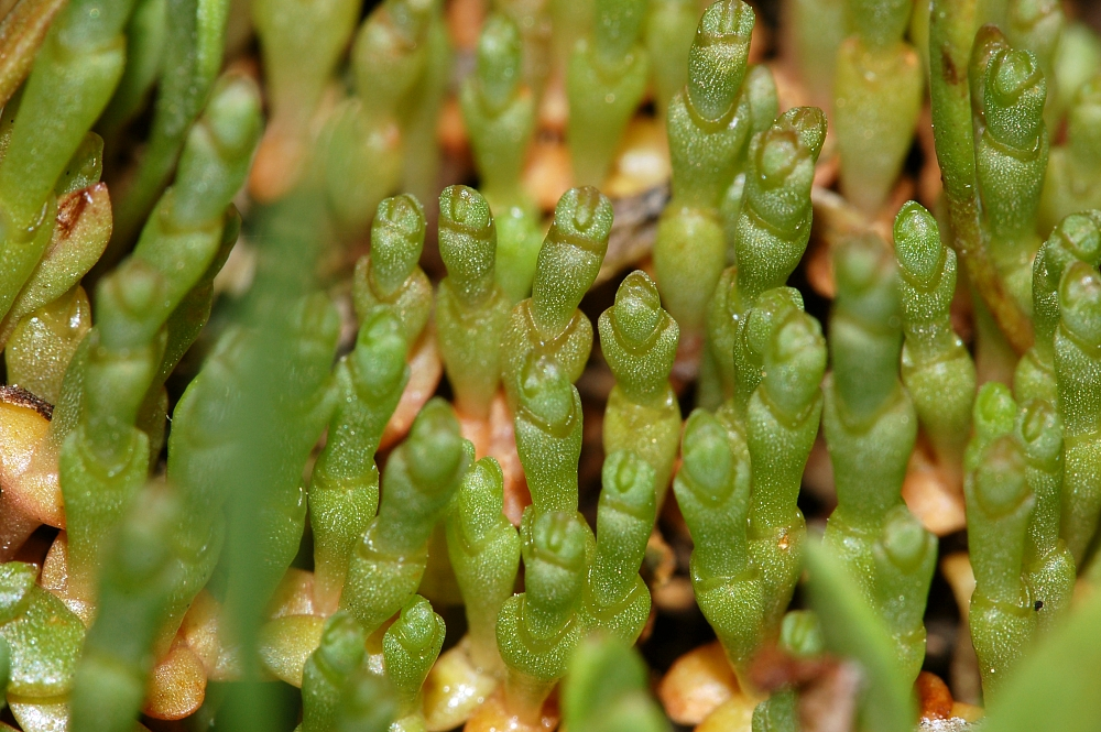 Salicornia ramosissima, Salziger See, Röblingen near Halle/Saale, Germany